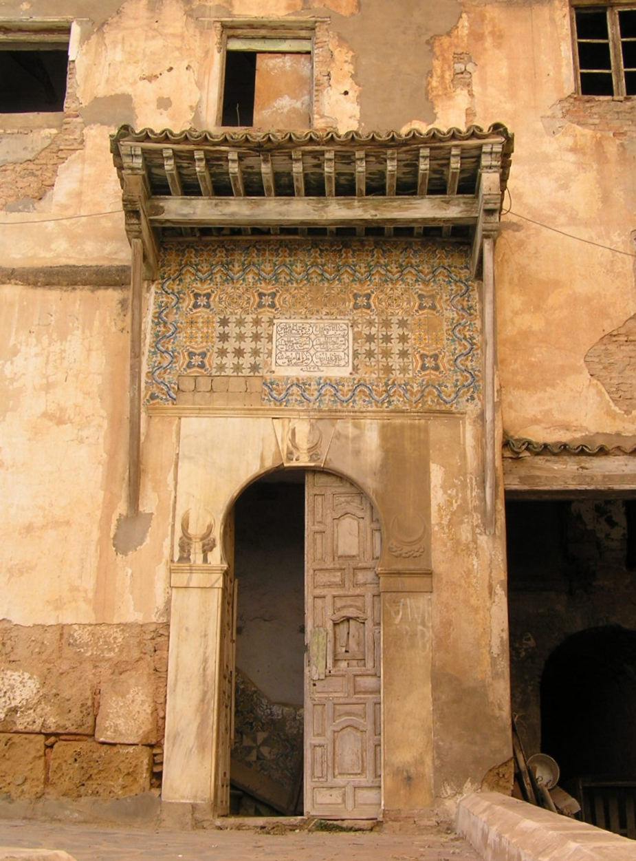 A door of Dey's palace in Algiers, Algeria.